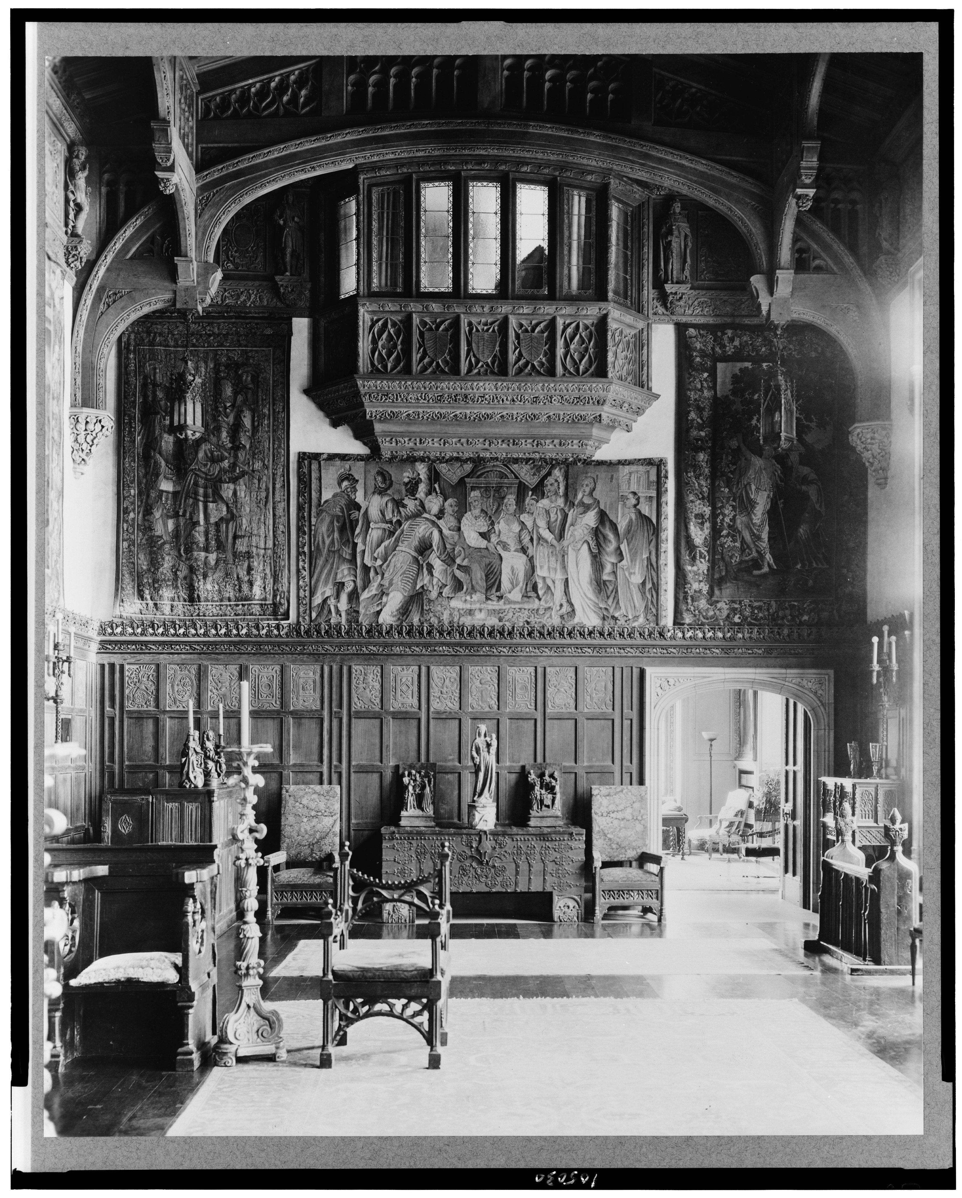 Title: Interior of the home of Arthur Curtiss James, 39 East 69th Street, New York City Abstract/medium: 1 photographic print.